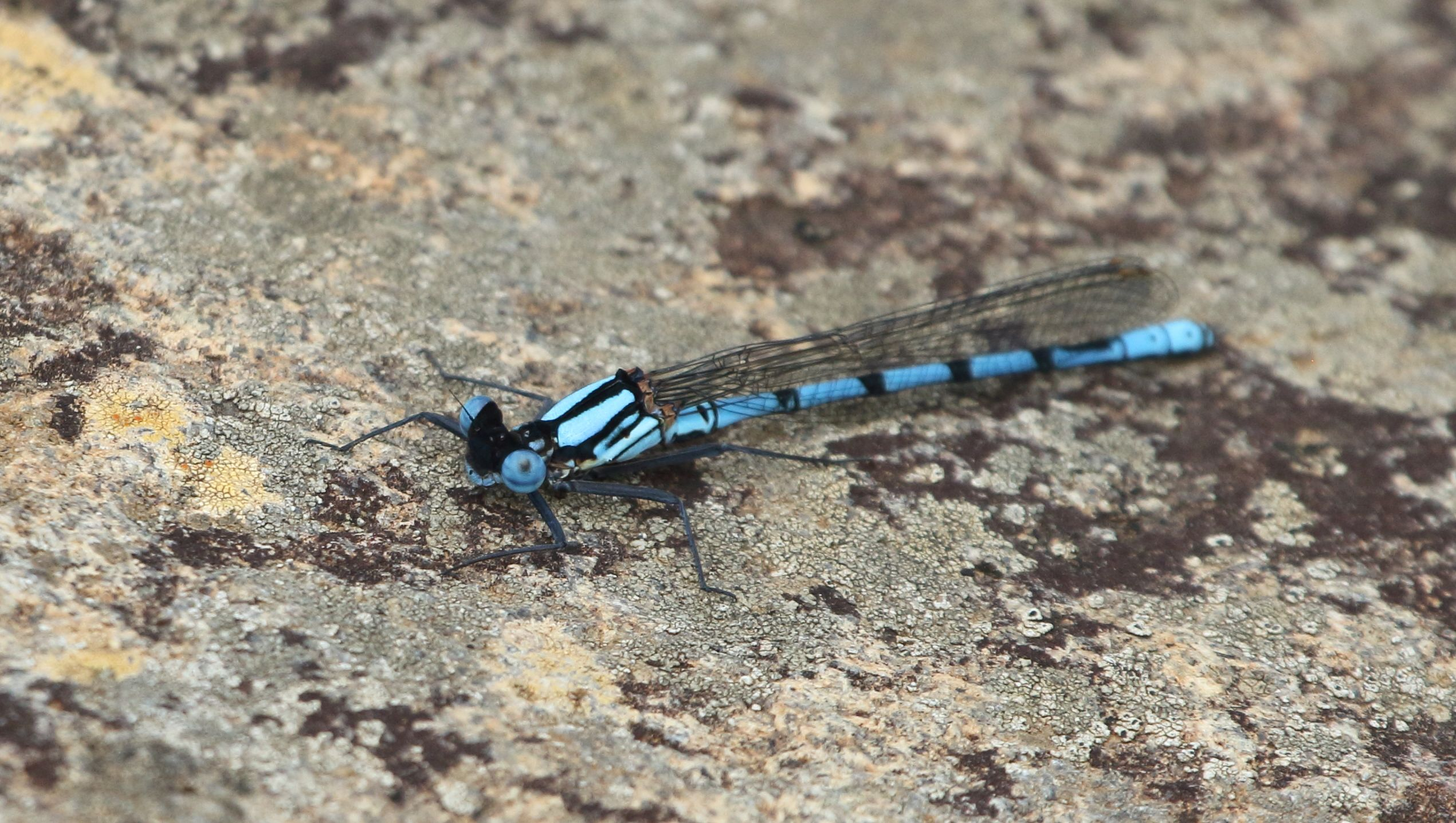 Male blue riverjack, Metacnemis valida on the Mzamba River, south of Bizana, Eastern Cape.